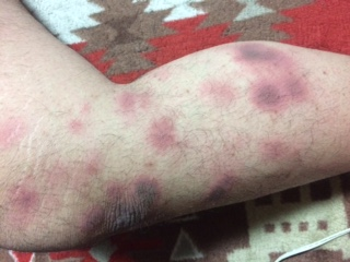 aka nummular dermatitis or discoid eczema